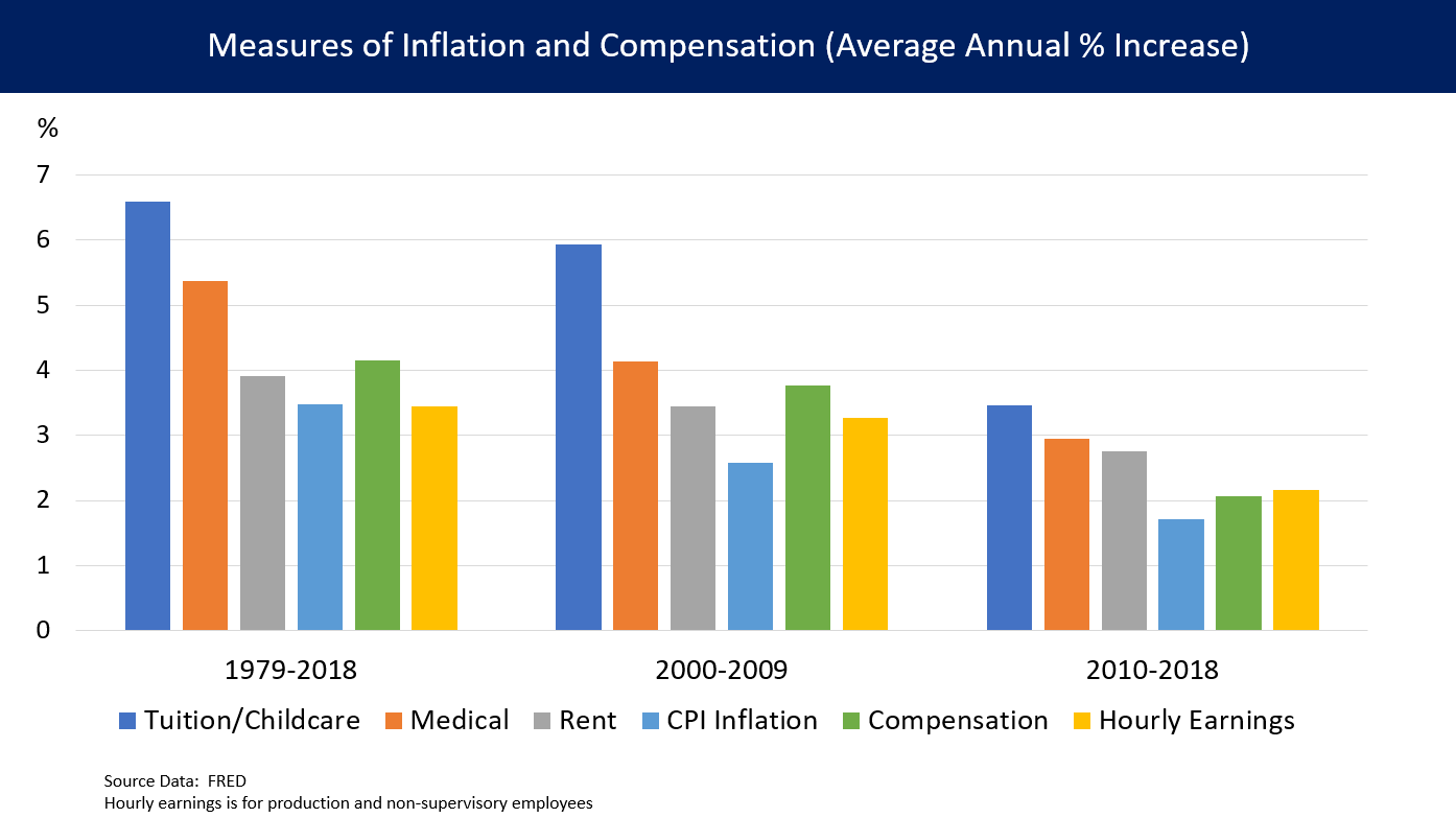 Inflation rates have been higher in tuition/childcare, medical, and rent categories than compensation or hourly wage growth. Further, inflation rates have fallen over time.